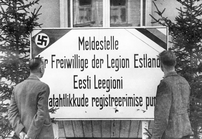 Informational display of an Estonian Legion recruiting point.